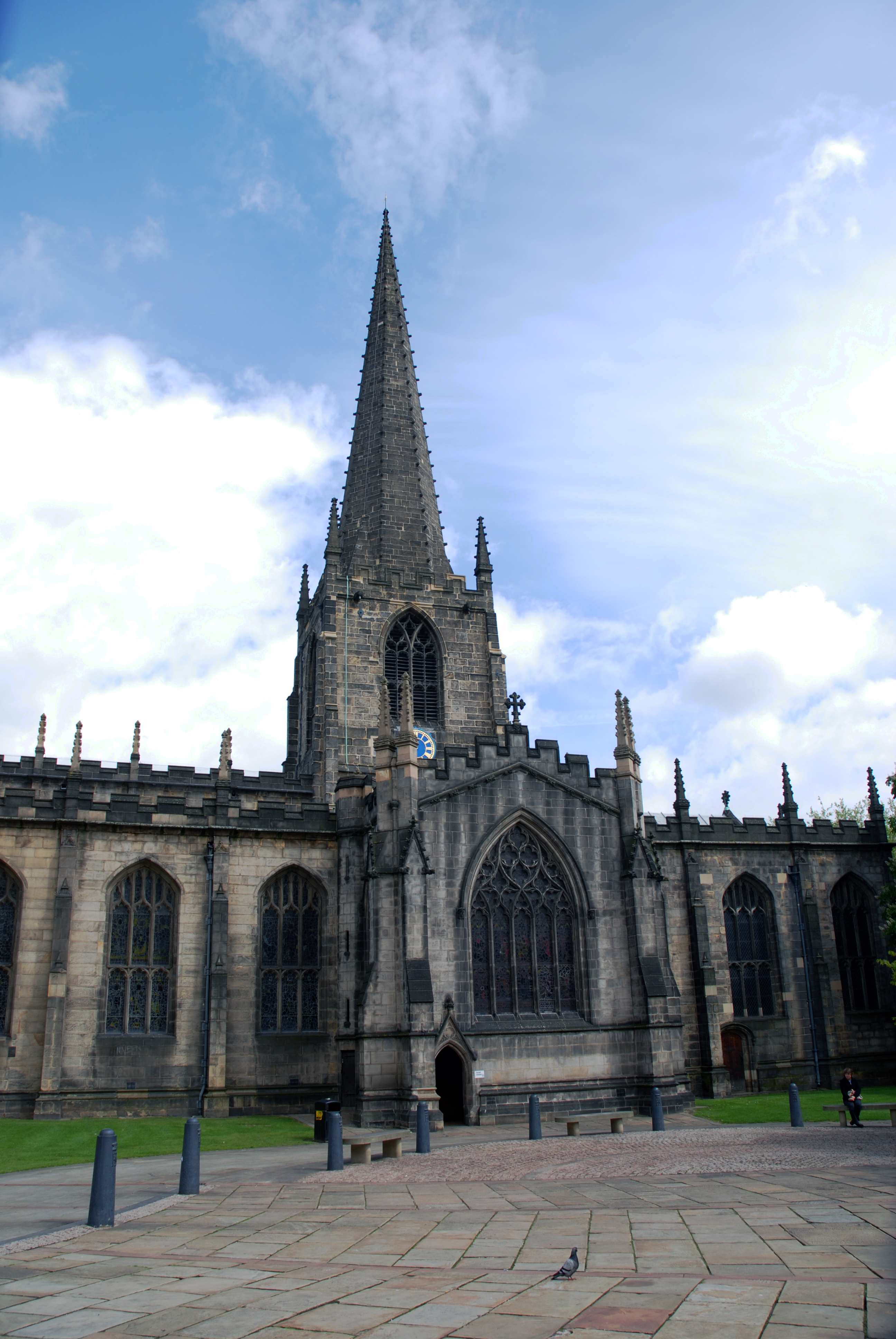 Sheffield,May 2009